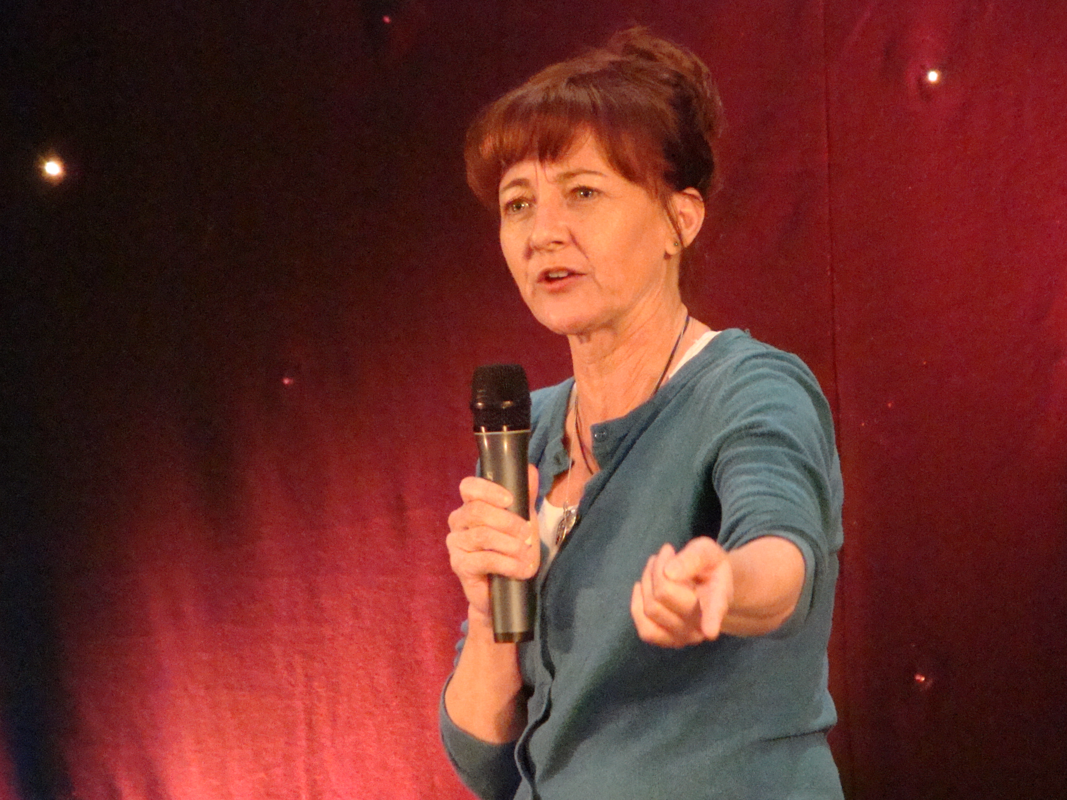 Bonita Friedericy